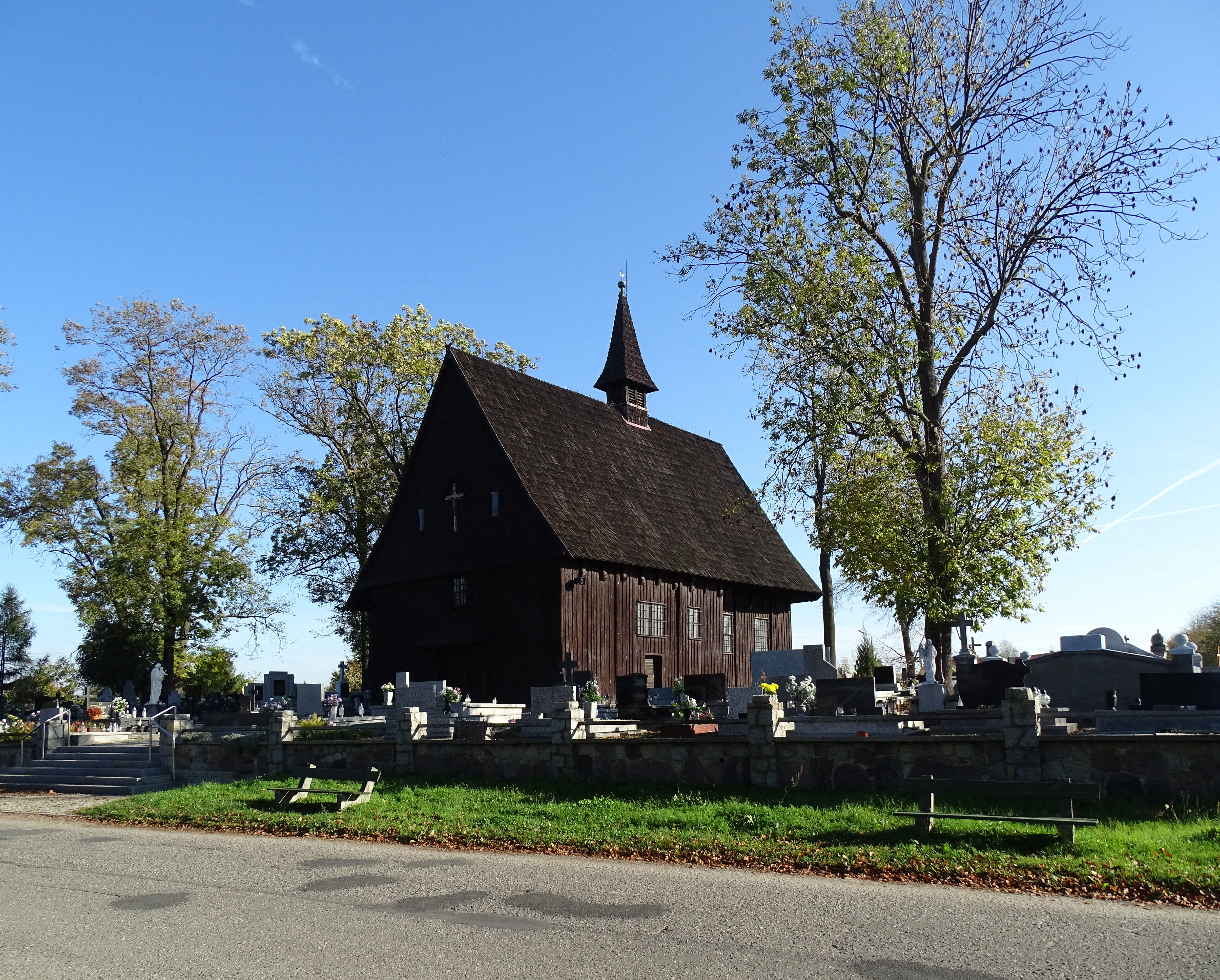 Koźmin Wielkopolski. Greater Poland. the Holy Cross church from 1570.